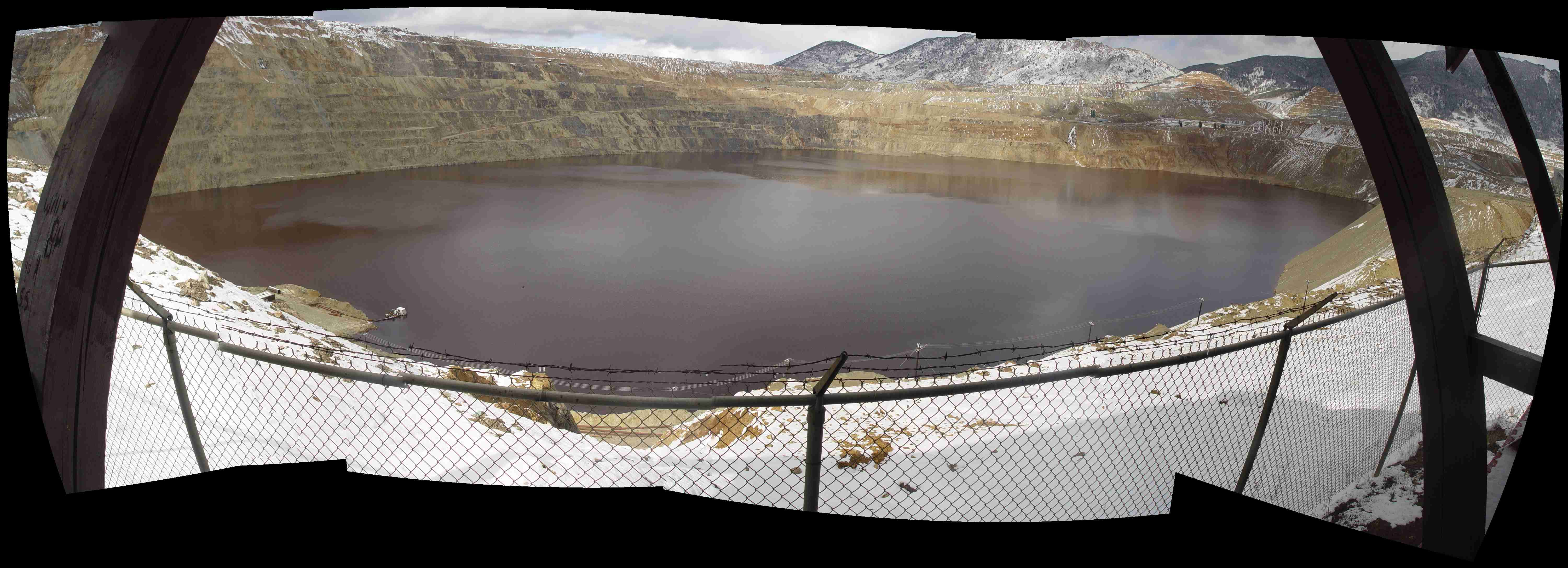 Composite fish eye view of the Berkeley Pit in Butte, Montana. Composite was created using the open source 'Hugin' application in July, 2008, combining 7 images of the Berkeley Pit taken in April of 2005.